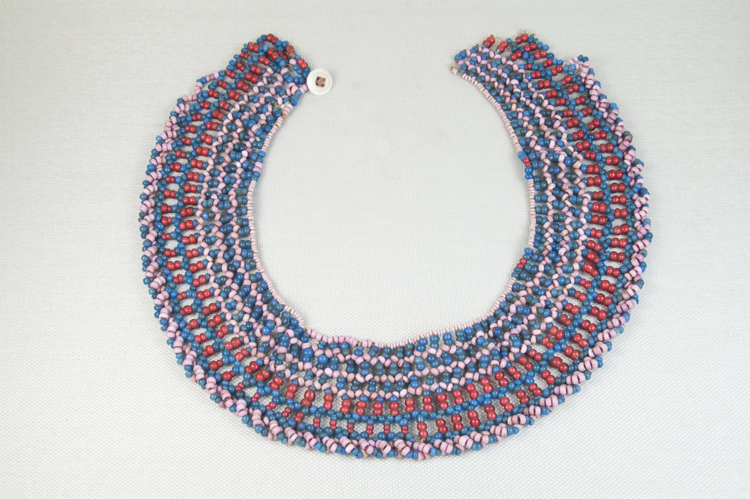 Flat circular band with single mother of pearl button enclosure. Openwork bands in varying widths of color from outside inwards, starting with pink, and blue, red, blue, red, blue, ending with a twisted edge of blue and pink beads. Technique: Openwork. CONDITION: Delicate, frayed at right closure.